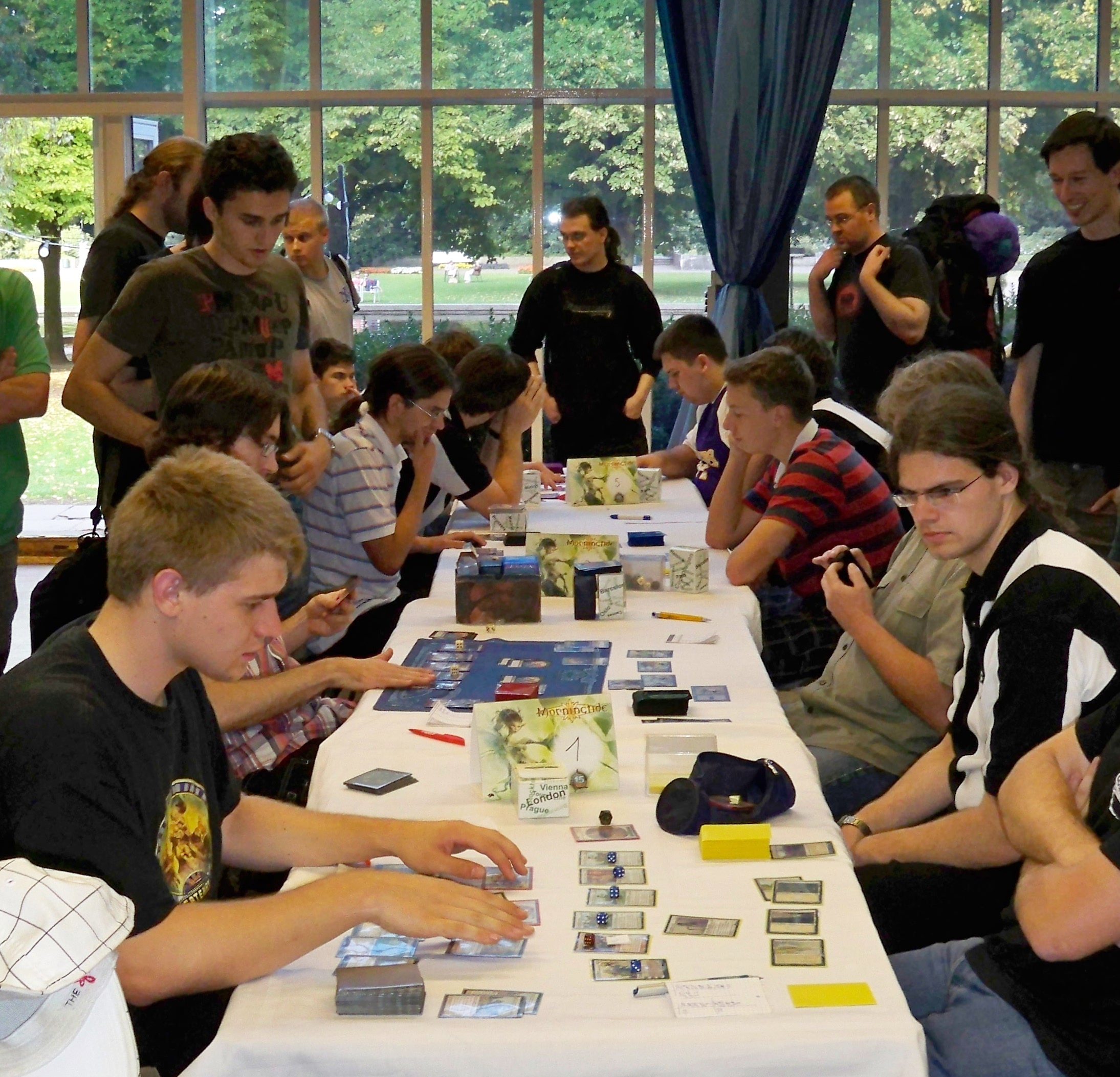 Players at the German Magic: The Gathering National Championships 2008 in Hanover.